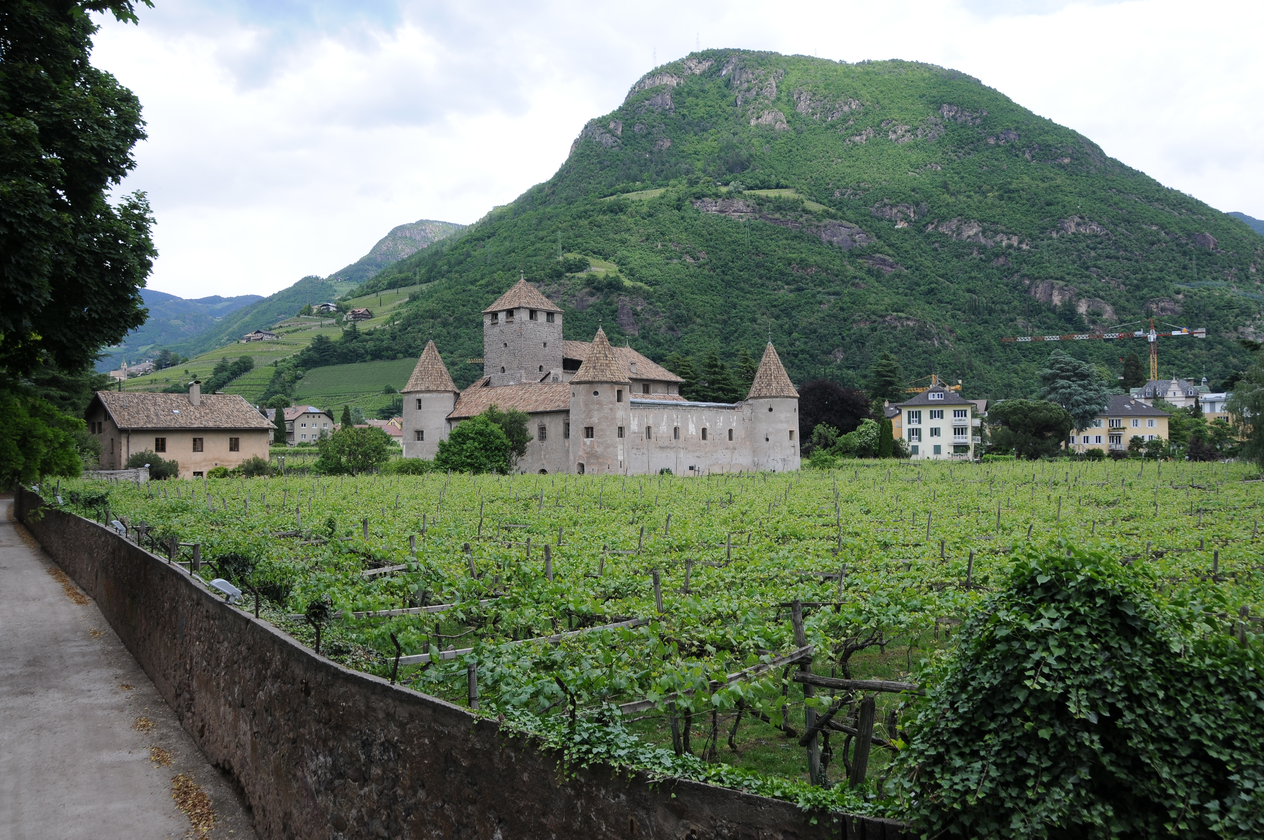 Maretsch Castle, Bozen (Bolzano)